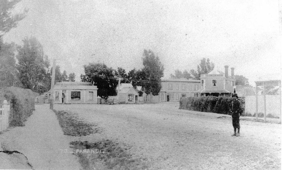 Papanui Junction looking from Papanui Road towards the Papanui Hotel sited on the Main North Road in the 1880s.